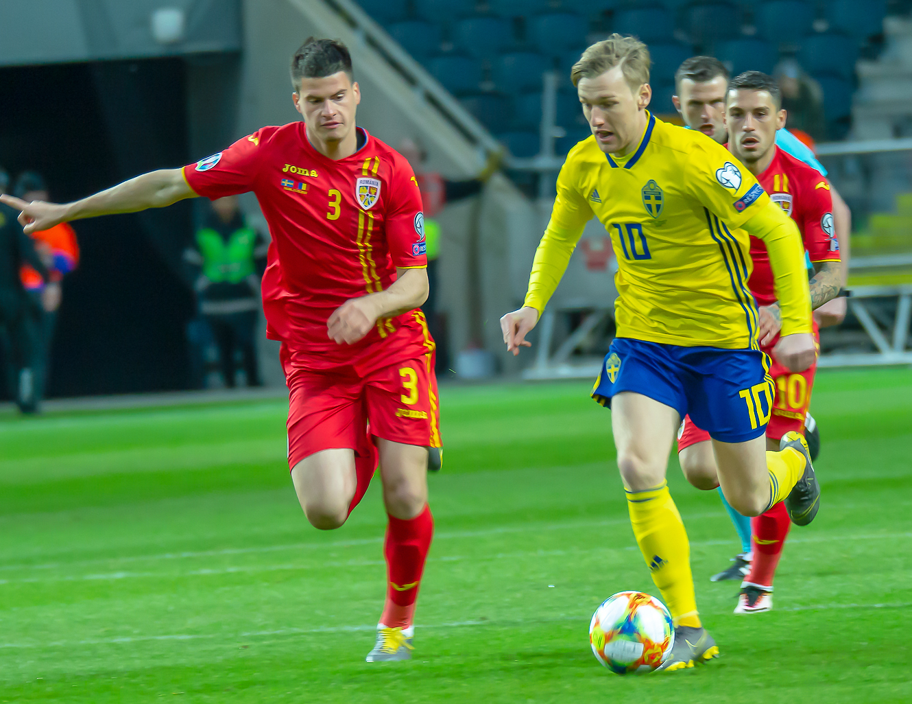 UEFA EURO qualifiers Sweden vs Romaina 20190323